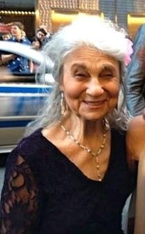 Lynn Cohen, Cheryl Stern and Me.Drama Desk Awards. Town Hall. NYC. June 1, 2014.